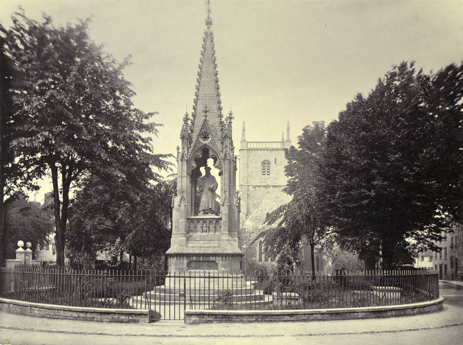 Collection: A. D. White Architectural Photographs, Cornell University Library Accession Number: 15/5/3090.00967 Title: Bishop Hooper Monument, Gloucester Photograph date: ca. 1865-ca. 1885 Location: Europe: United Kingdom; Gloucester Materials: albumen print Image: 6 x 8 1/8 in.; 15.24 x 20.6375 cm Provenance: Gift of Andrew Dickson White Persistent URI: There are no known copyright restrictions on this image. The digital file is owned by the Cornell University Library which is making it freely available with the request that, when possible, the Library be credited as its source. We had some help with the geocoding from Web Services by Yahoo! This image is from the Cornell University Library's The Commons Flickr stream. The Library has determined that there are no known copyright restrictions. This image was taken from Flickr's The Commons. The uploading organization may have various reasons for determining that no known copyright restrictions exist, such as: The copyright is in the public domain because it has expired; The copyright was injected into the public domain for other reasons, such as failure to adhere to required formalities or conditions; The institution owns the copyright but is not interested in exercising control; or The institution has legal rights sufficient to authorize others to use the work without restrictions. More information can be found at Please add additional copyright tags to this image if more specific information about copyright status can be determined. See Commons:Licensing for more information.No known copyright restrictionsNo restrictions